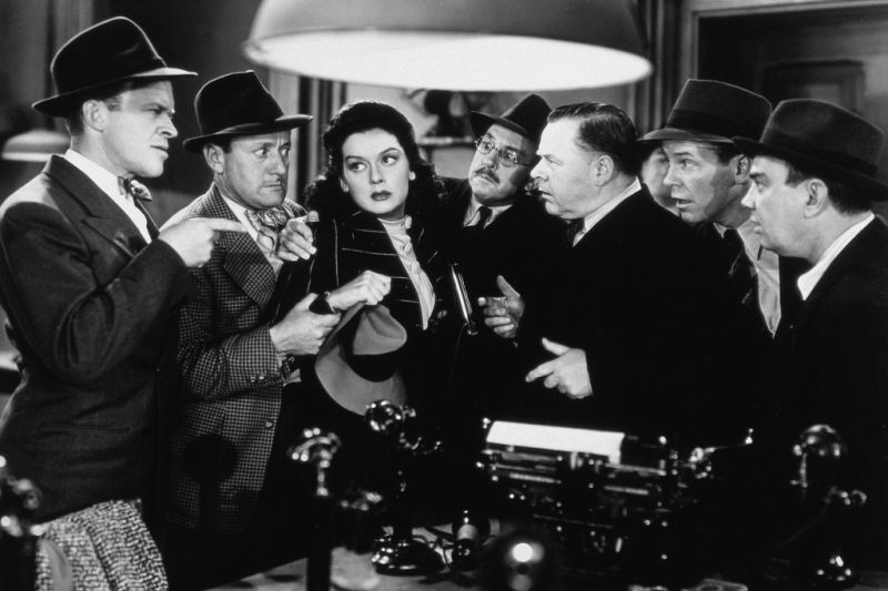 L. to R. : Frank Jenks, Roscoe Karns, Rosalind Russell, Porter Hall, Gene Lockhart, Regis Toomey, and Cliff Edwards in His Girl Friday (1940). Rosalind Russell is wearing a costume designed by costume designer Robert Kalloch.